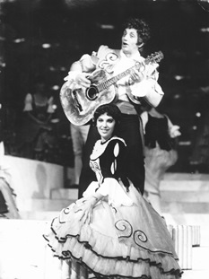 "La Perichole"